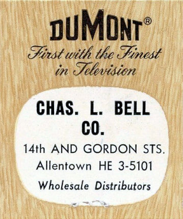 Chas L Bell Company - Matchbook - Allentown PA